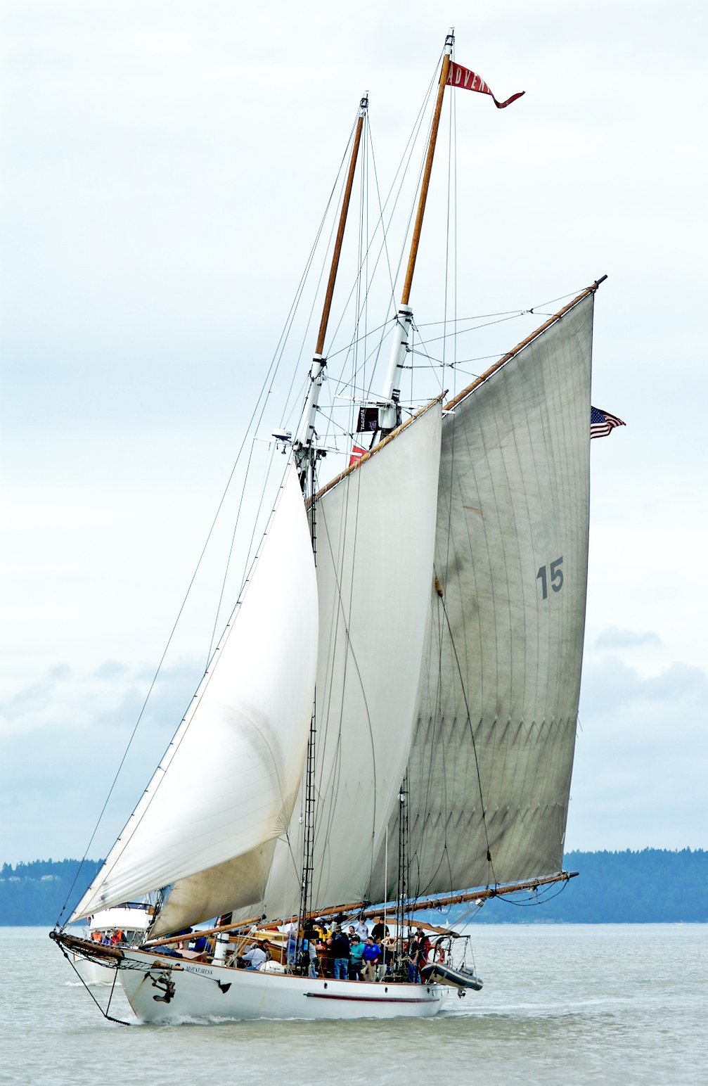 The Adventuress under sail in Commencement Bay near Tacoma, Washington.